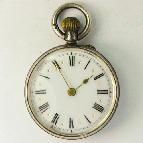 Ladies pocket watch